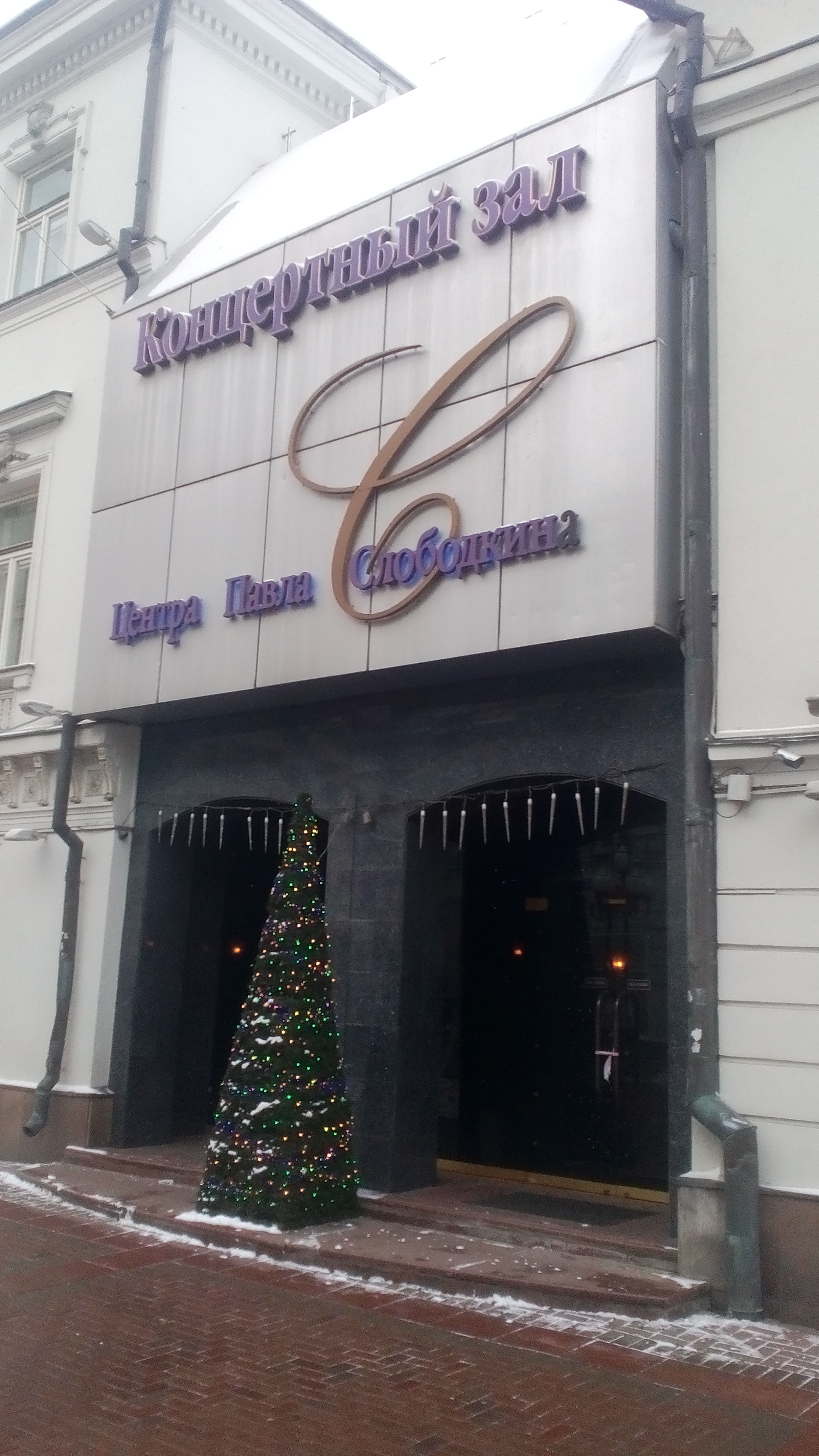 Концертный зал Центра Павла Слободкина - Арбат, Москва.